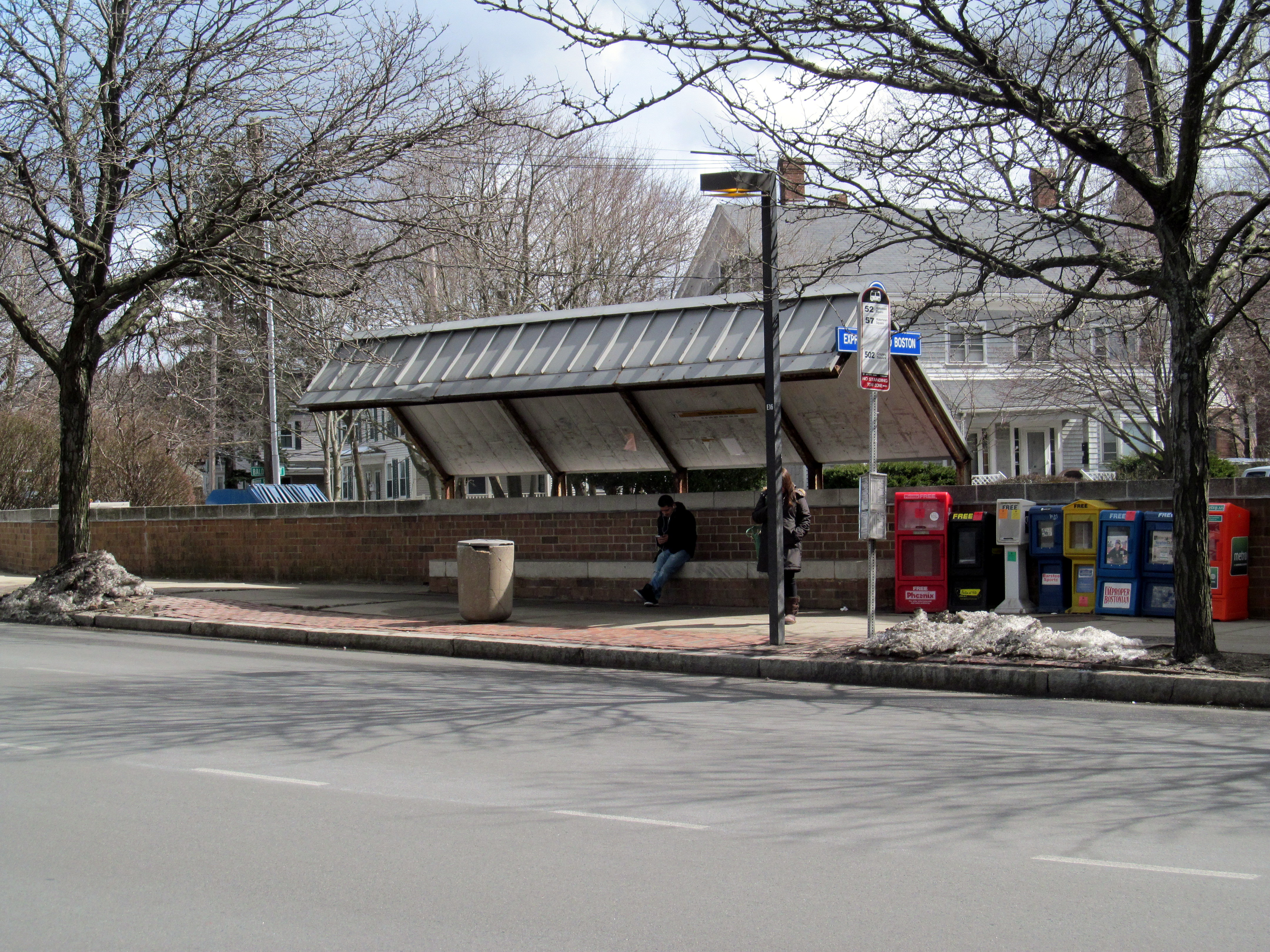 The south side bus stop at Newton Corner, serving the 52, 57, 502, 504, 553, 554, 556, and 558 routes, in March 2013